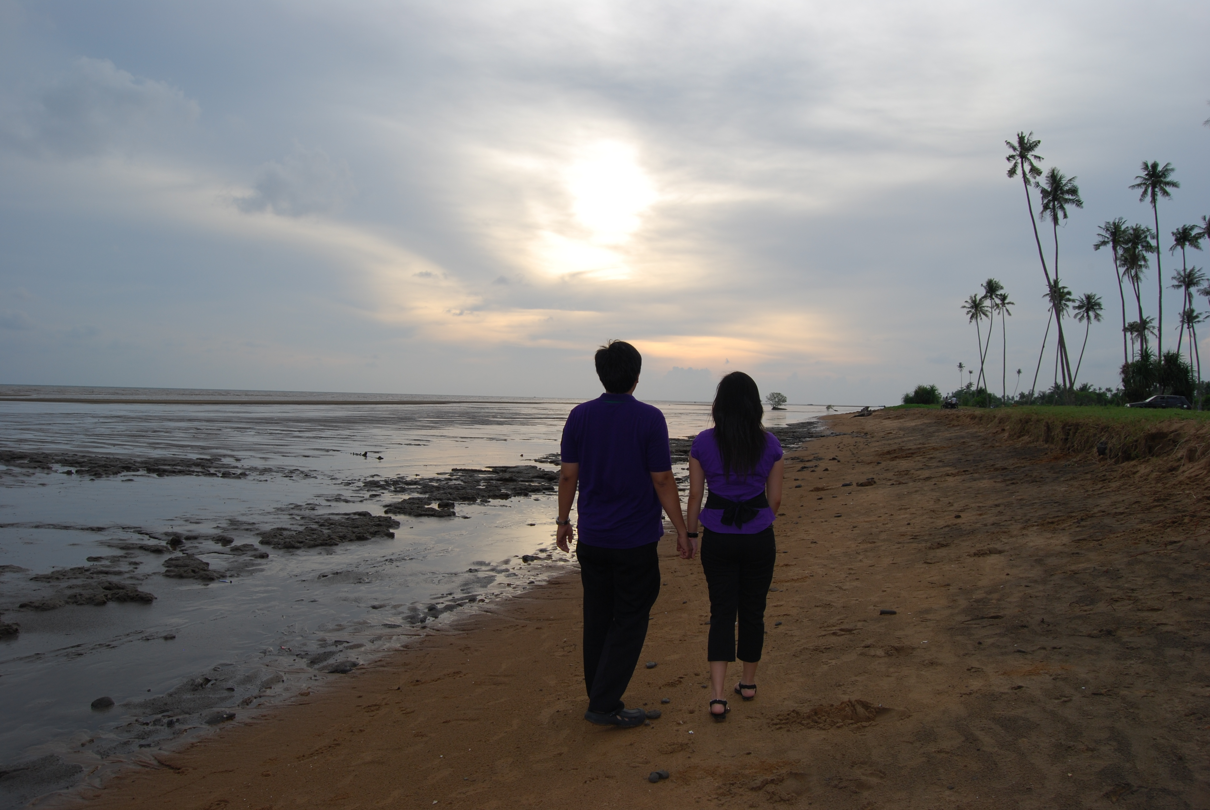 Beautiful sunset at Sungai Jawi beach (or Penage beach).